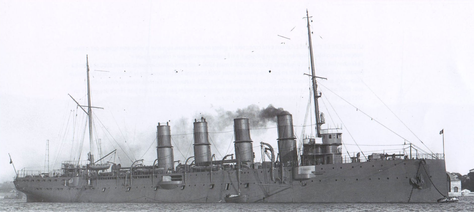 French protected cruiser Chateaurenault